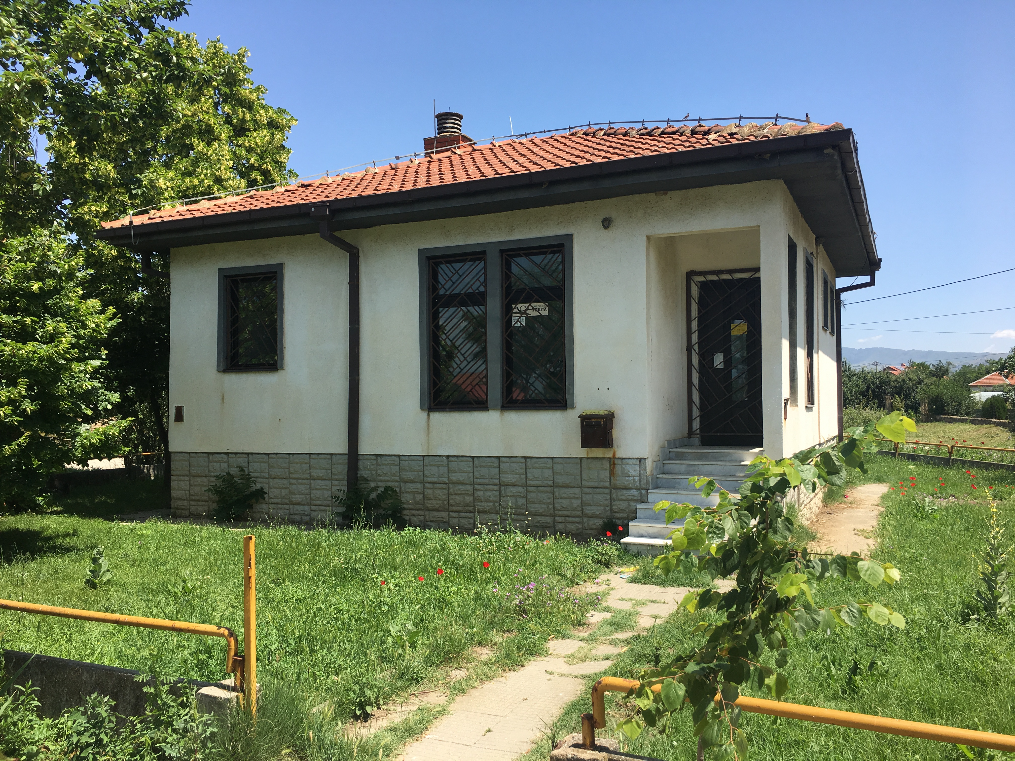 A post office in the village of Dedebalci